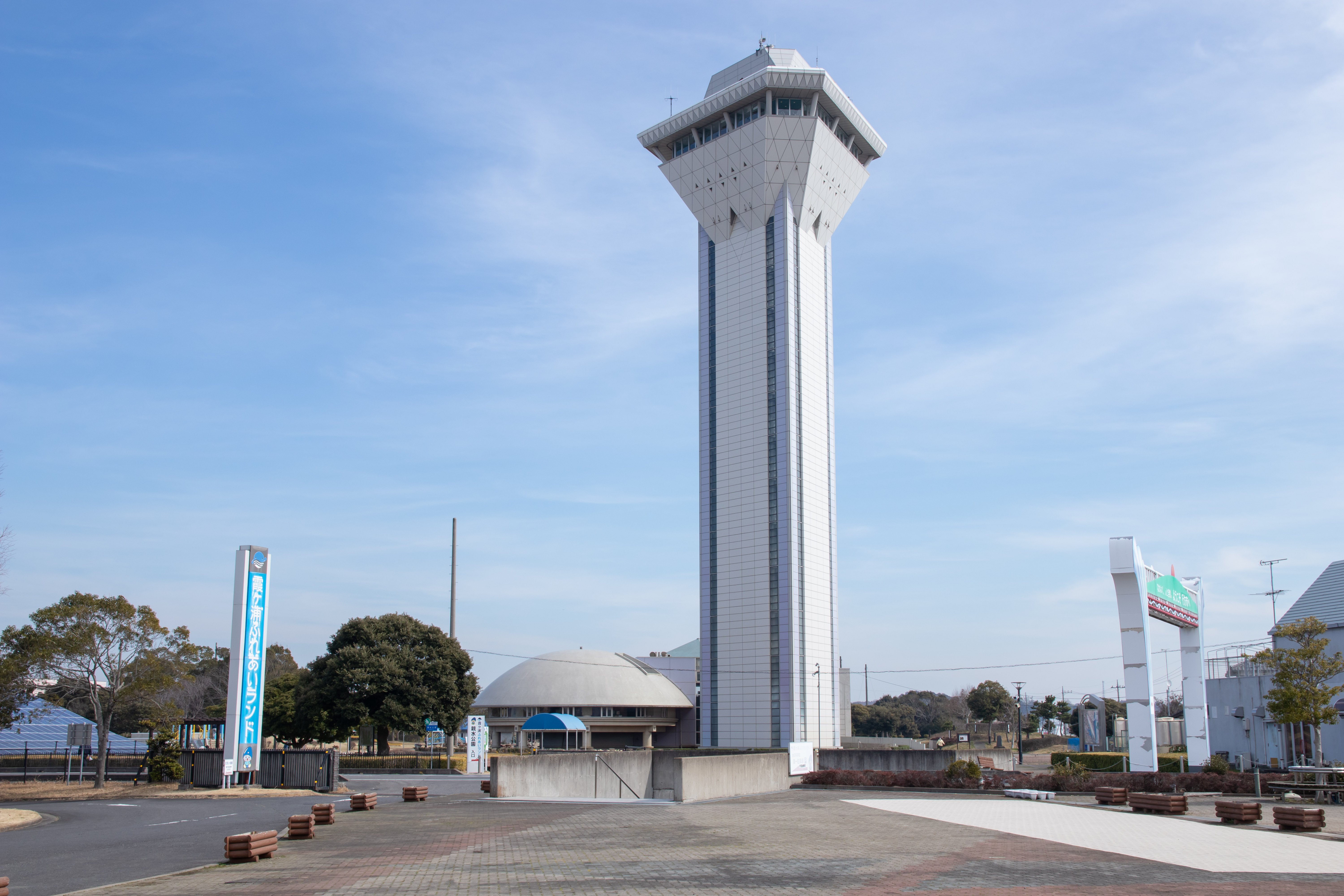 Kasumigaura Fureai Land, Namegata City, Ibaraki, Japan